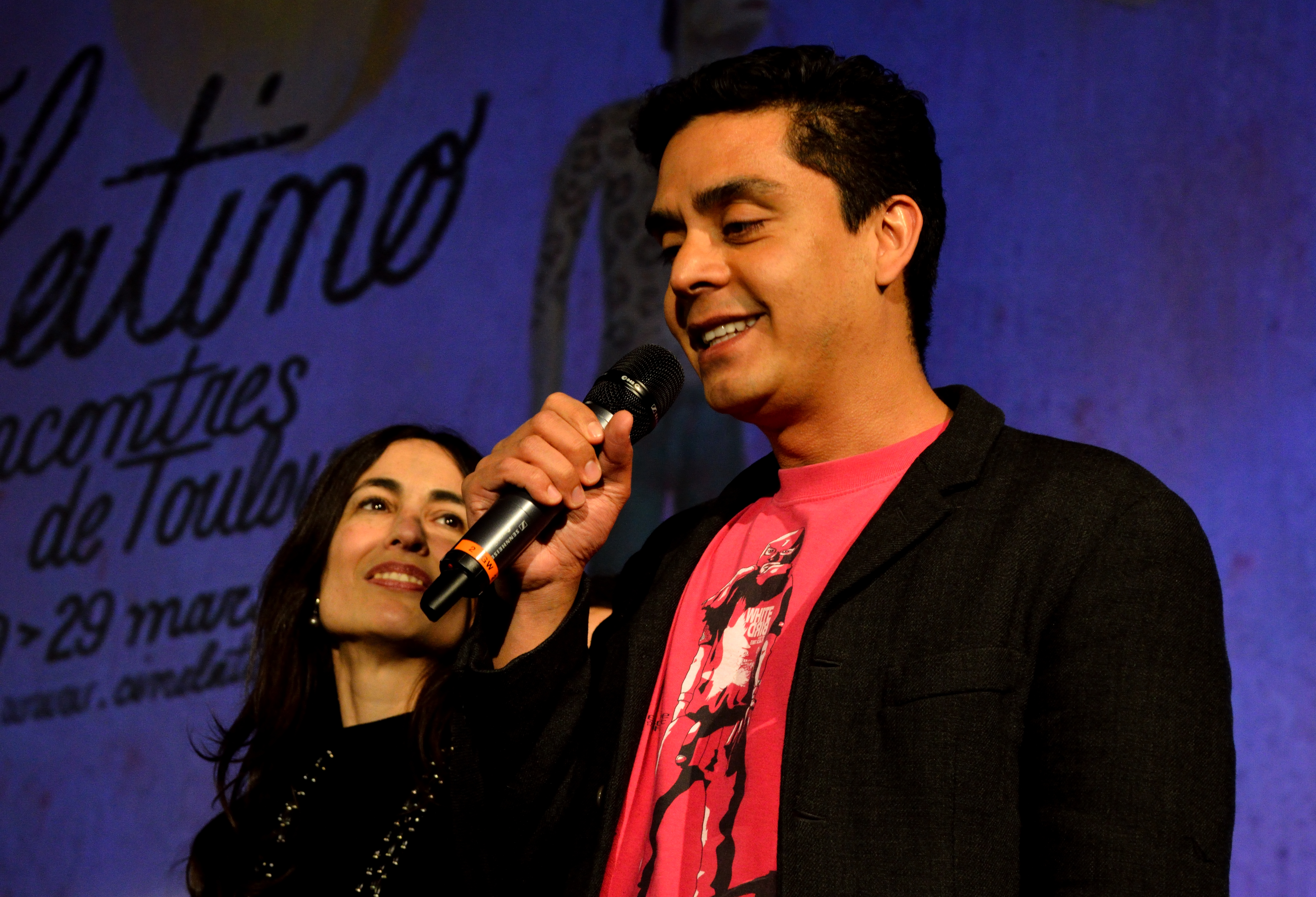 Guatemalan director Jayro Bustamante.